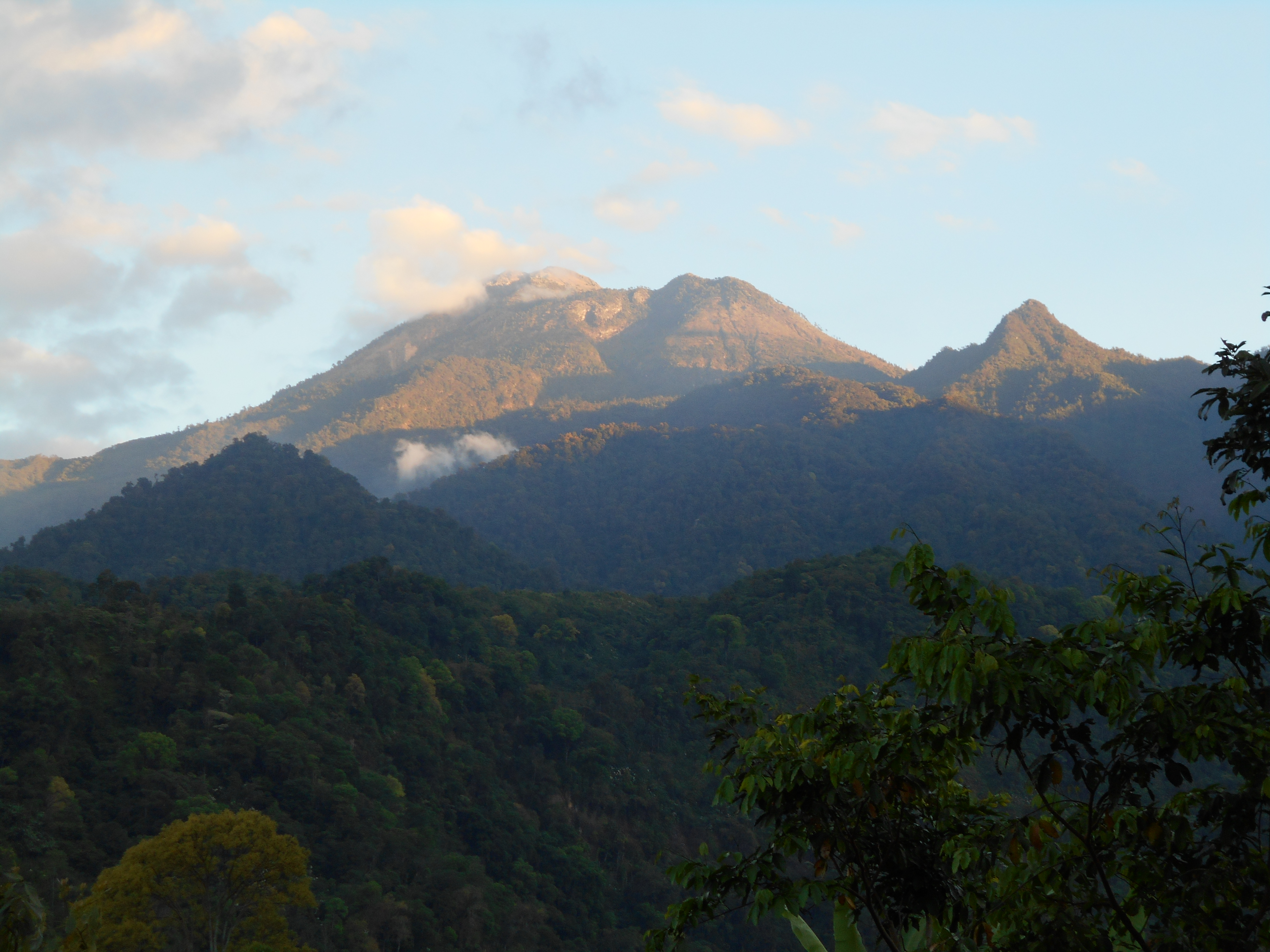 The Tajumulco Volcano from the Piamonte coffee estate, San Rafael Pie de la Cuesta, San Marcos department, Guatemala.